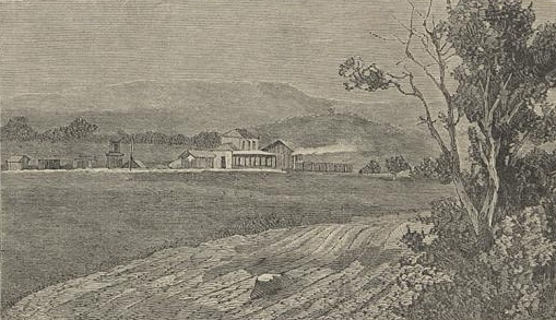 Drawing of the Celorico da Beira Railway Station, on the Beira Alta Railway, in Portugal. This image was published on the Occidente magazine No. 146, of the 11th January 1883, and scanned by the Hemeroteca Municipal de Lisboa.